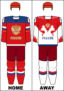 The home and away jerseys of the Russian national ice hockey team with the Russian coat of arms in the middle, as used at the 2014 Winter Olympics in Sochi.